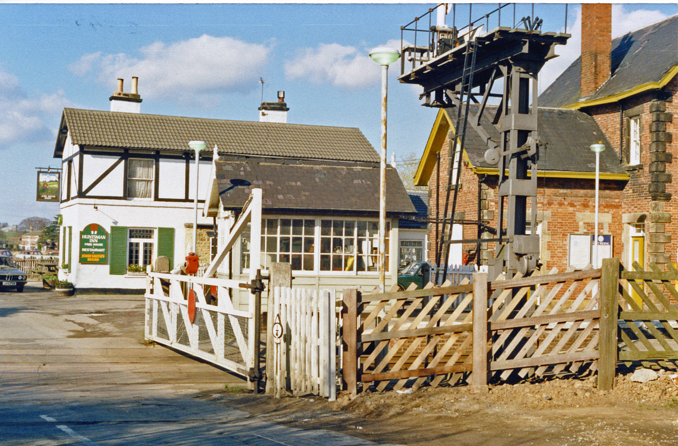 Cattal station, 1989. View northward, with level-crossing, signal-box and Huntsman Inn: ex-NER York (to right) - Knaresborough (to left) line. This was one of the earliest branch lines to change over to DMUs (in 1954-5) and remains thriving.